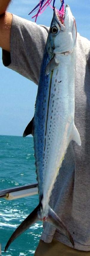 Cero mackerel, caught at Key West.